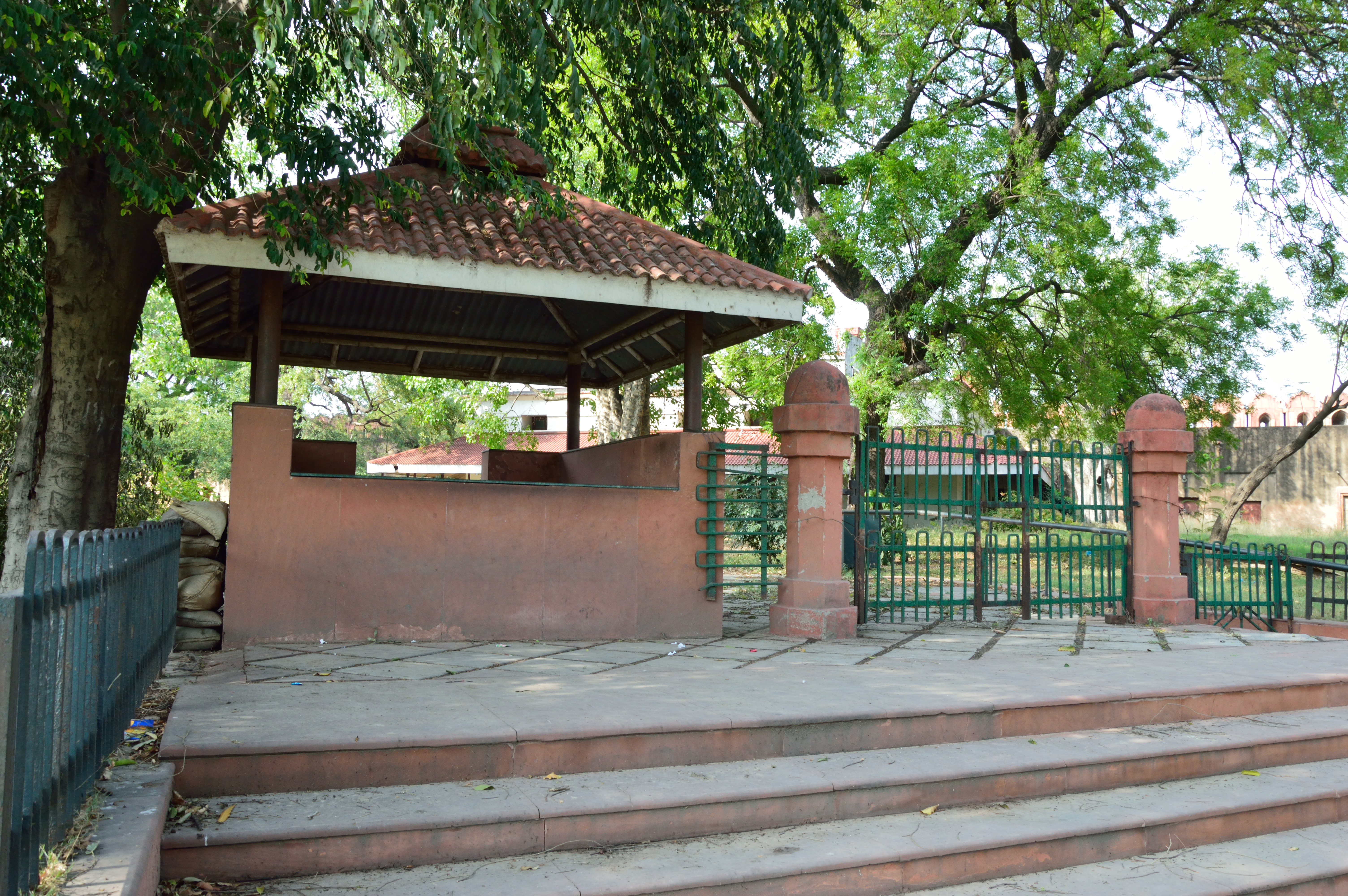 The Red Fort also known as Lal Qil'ah, or Lal Qila, meaning the Red Fort, located in Delhi, India is a UNESCO World Heritage Site.